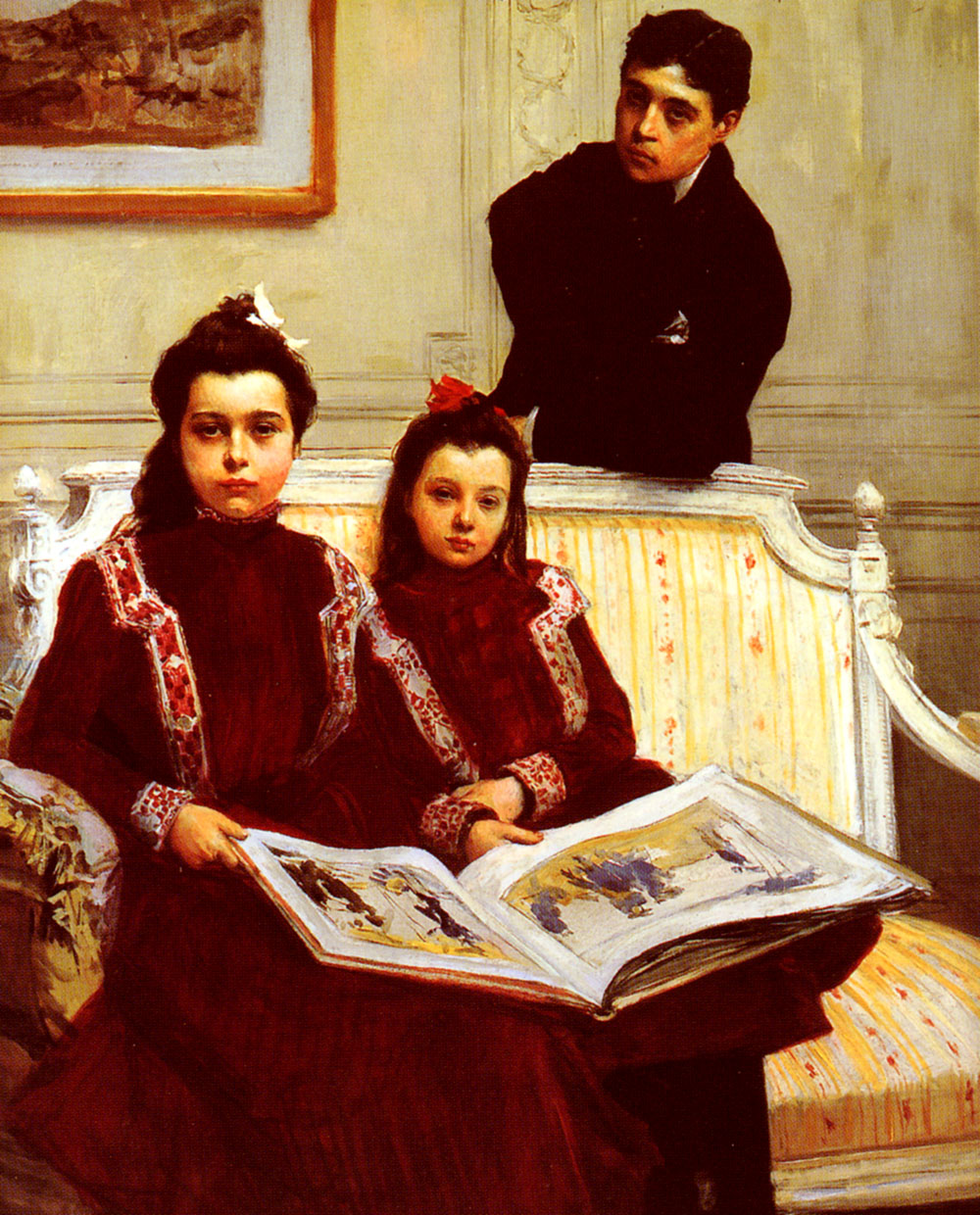 Has been auctioned in the past under each of the three titles.